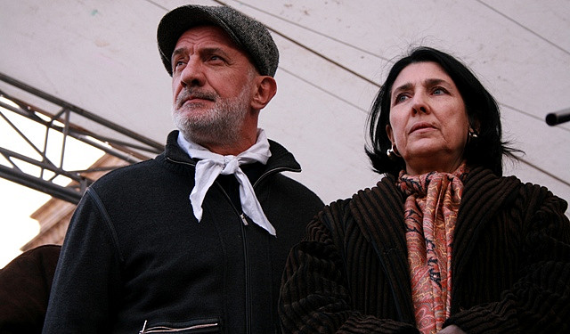 April 10, 2009... Opposition leaders Goga Khaindrava and Salome Zurabishvili in front of parliament building